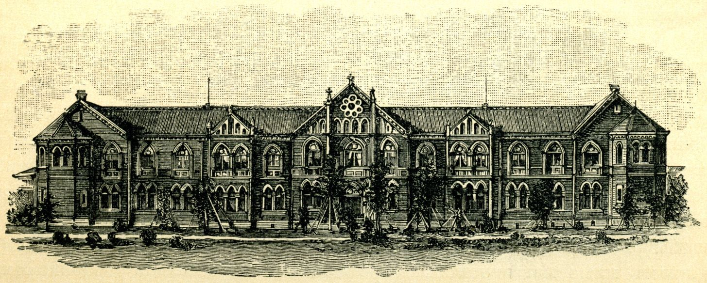 University of Tokyo. Faculty of law. Image from the book "Japan And Japanese" (1902). Page 29